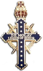 Legion of Honor Jewel, Order of DeMolay